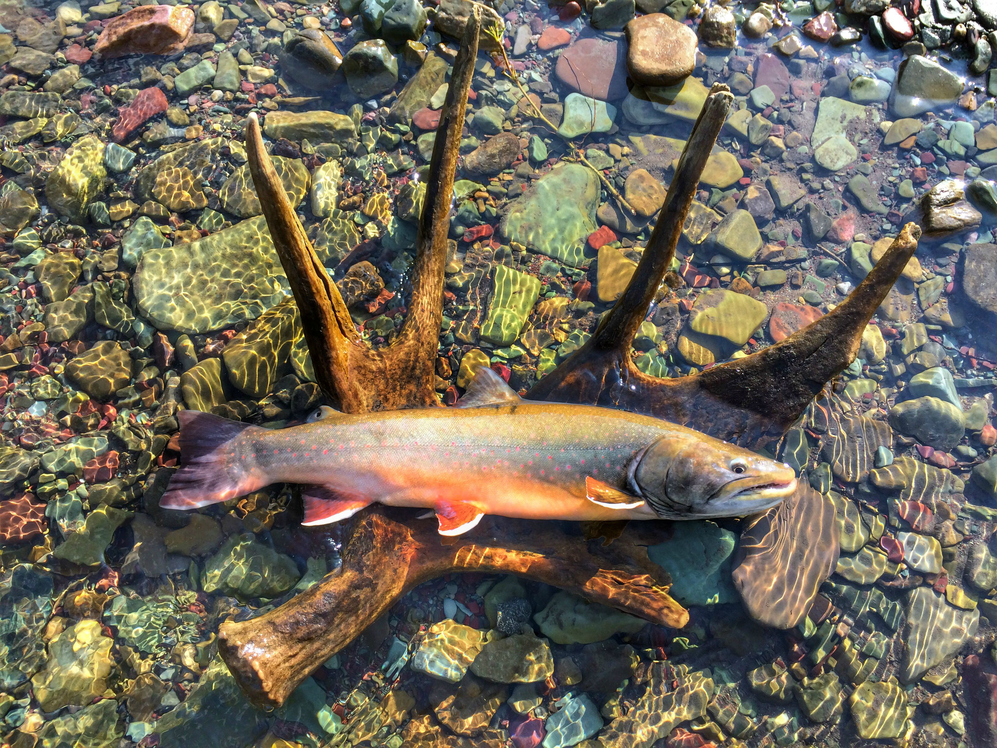 When a “trout” is not a trout: The common names used for fishes sometimes have little to do with how they are classified biologically. Bull Trout (Salvelinus confluentus) are members of the “trout” family Salmonidae as are salmon, grayling, and whitefish. However, technically speaking, Bull Trout are actually classified as char (Genus: Salvelinus). One general difference between trout and char is that trout have light colored bodies with dark spots and char have dark-colored bodies with light spots. Since 1997, the Montana Fish and Wildlife Conservation Office continues to work cooperatively with the Blackfeet Tribe, Glacier National Park, and the U.S. Bureau of Reclamation to focus on gathering important information on the status and biology of the federally threatened St. Mary River Bull Trout population in north-west Montana. Photo Credit: Jim Mogen / USFWS